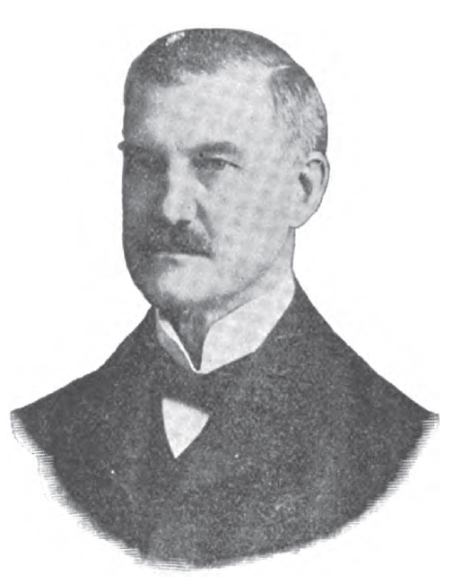 an Ohio politician named Emmett Tompkins